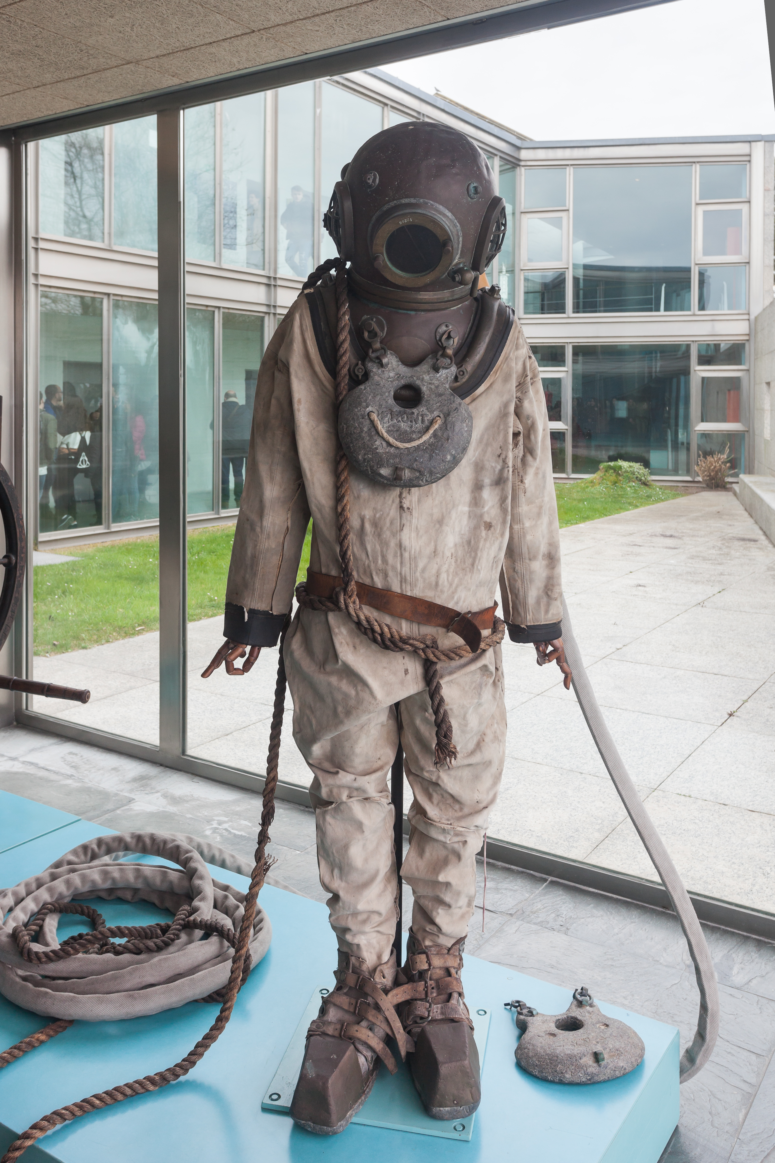 Diving suit. Collections of the Museo do Mar de Galicia, Vigo, Galicia (Spain).